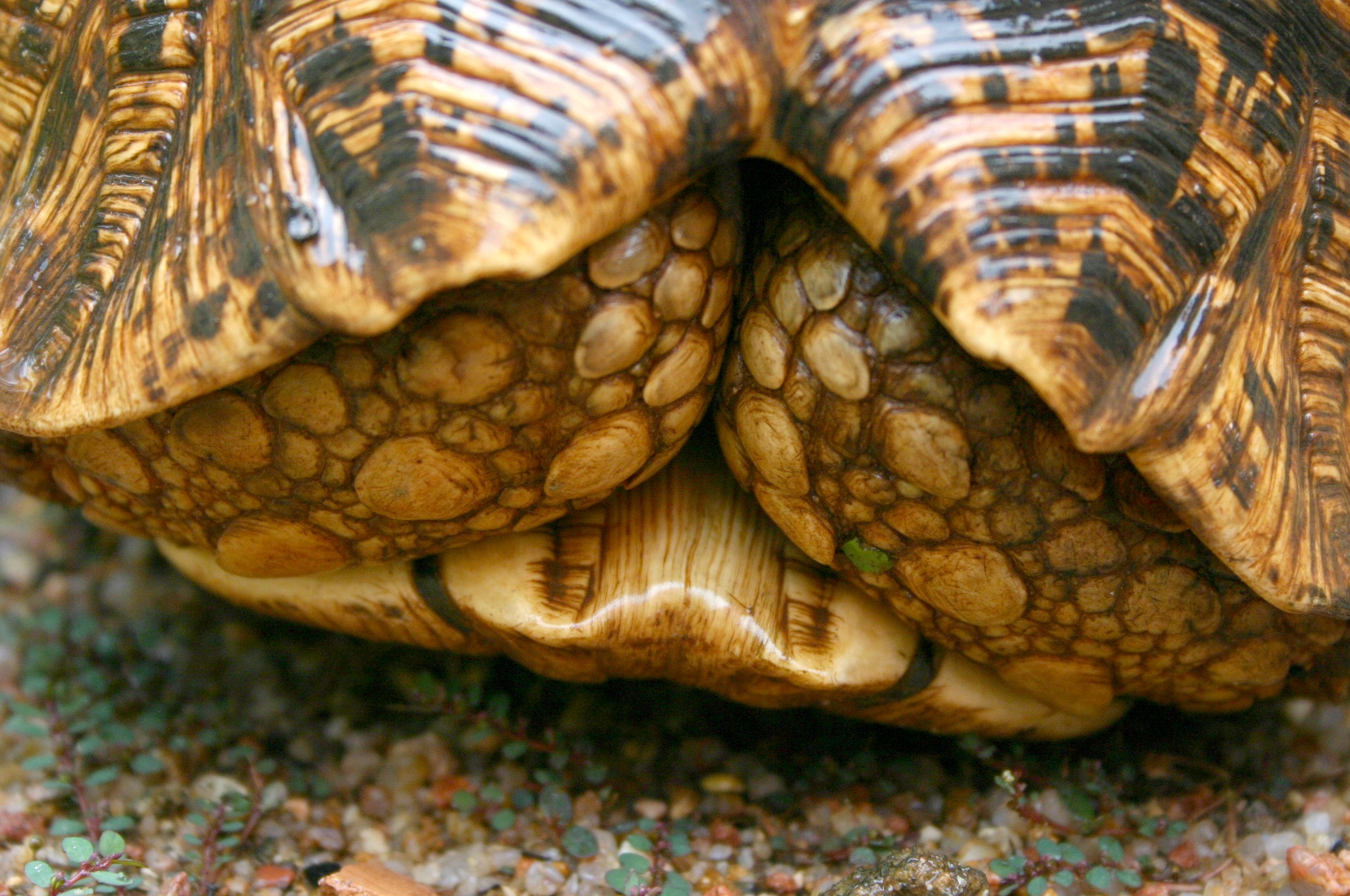 Retracted forelegs of adult female Leopard Tortoise at Potgietersrust, Transvaal, South Africa